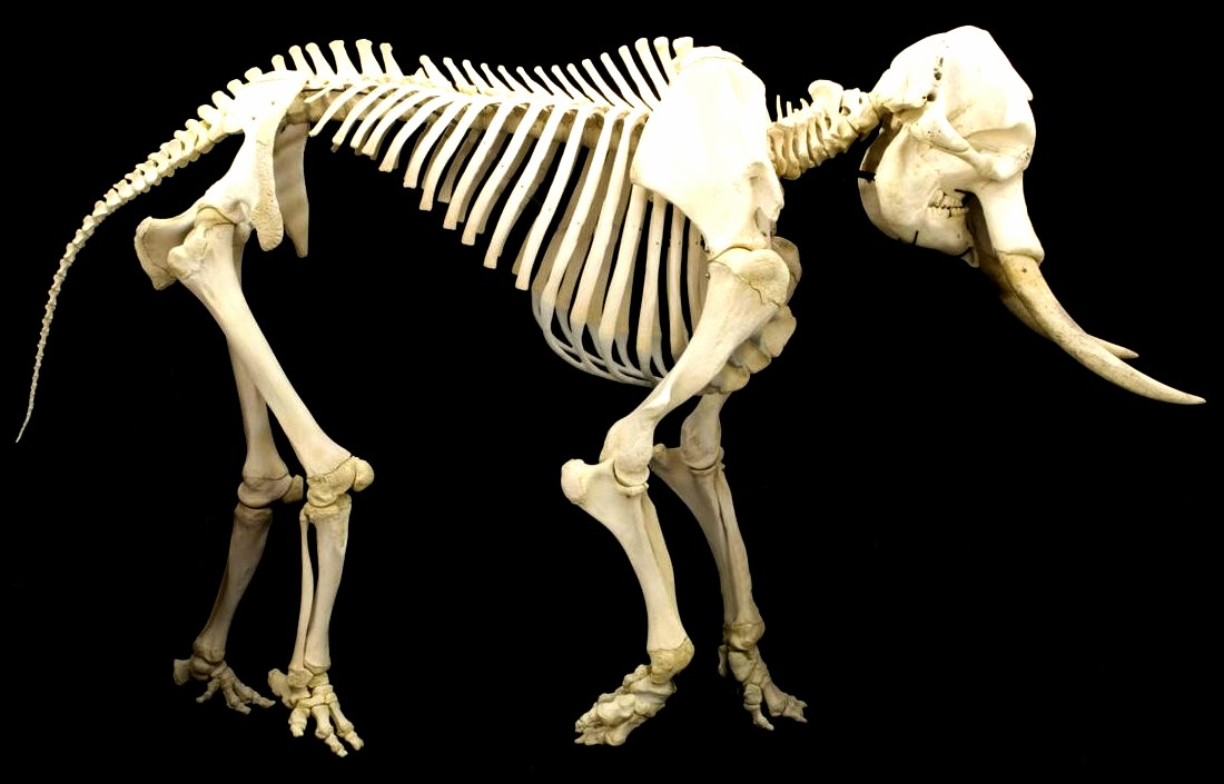 Elephant Skeleton, prepared and articulated by Skulls Unlimited International.